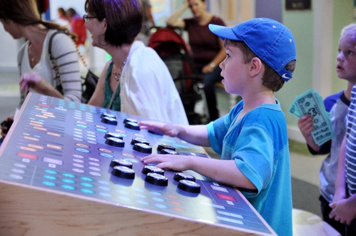 Boy playing in the Amphitheater at Pretend City Children's Museum